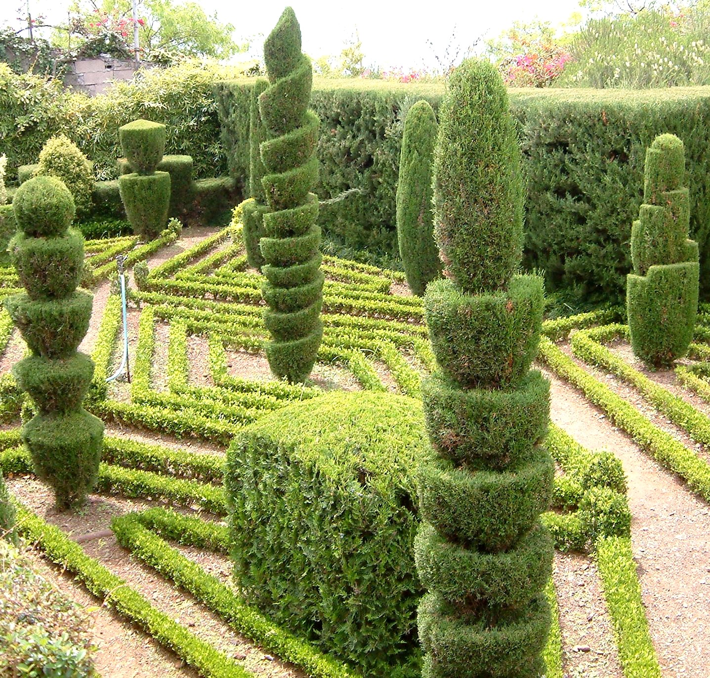 The Parterre and Topiary garden designed by Édouard André, at the Jardim Botânico da Madeira - Madeira island - Portugal.